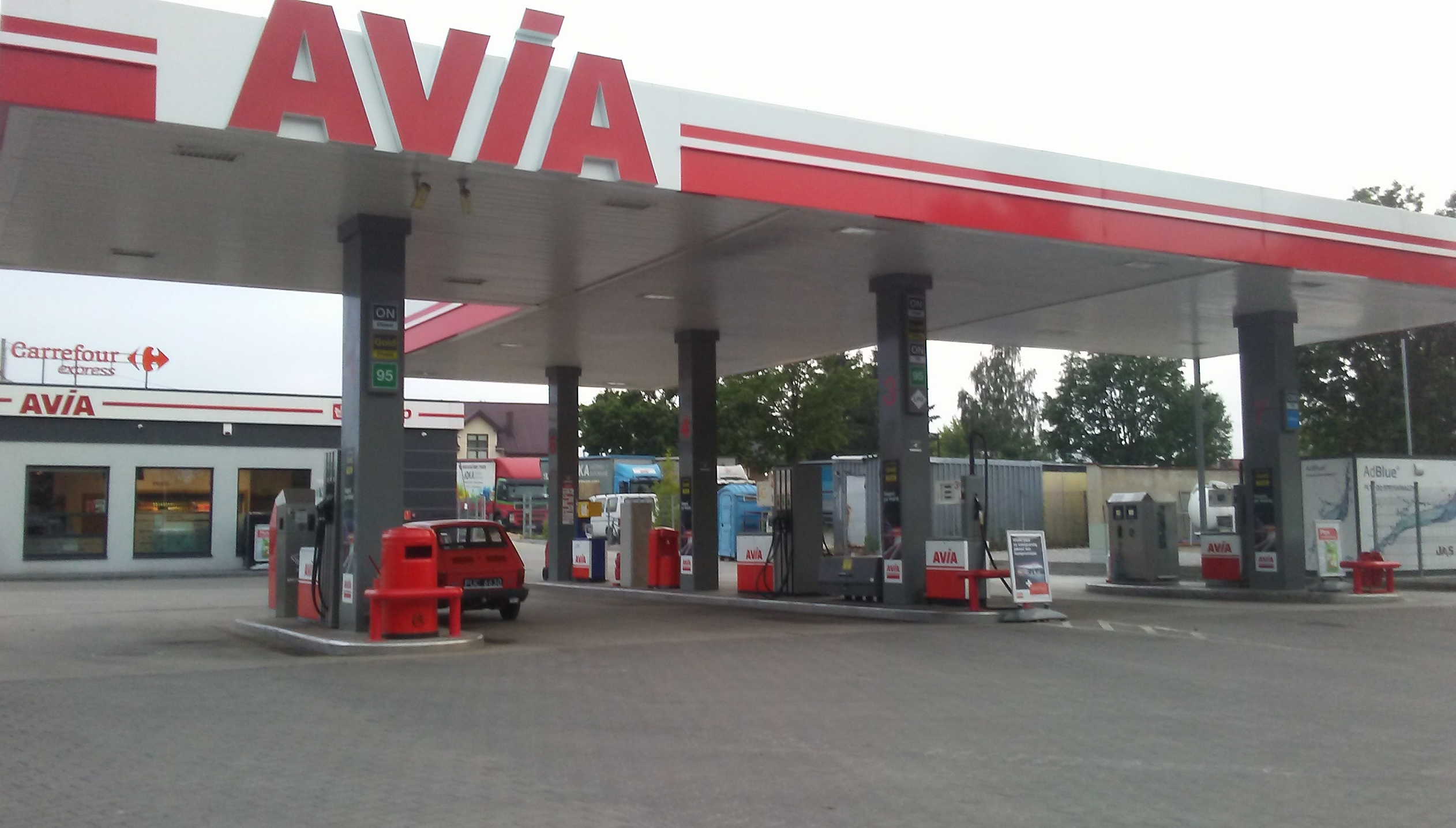 Avia petrol station, Tomaszów Mazowiecki, June 2020